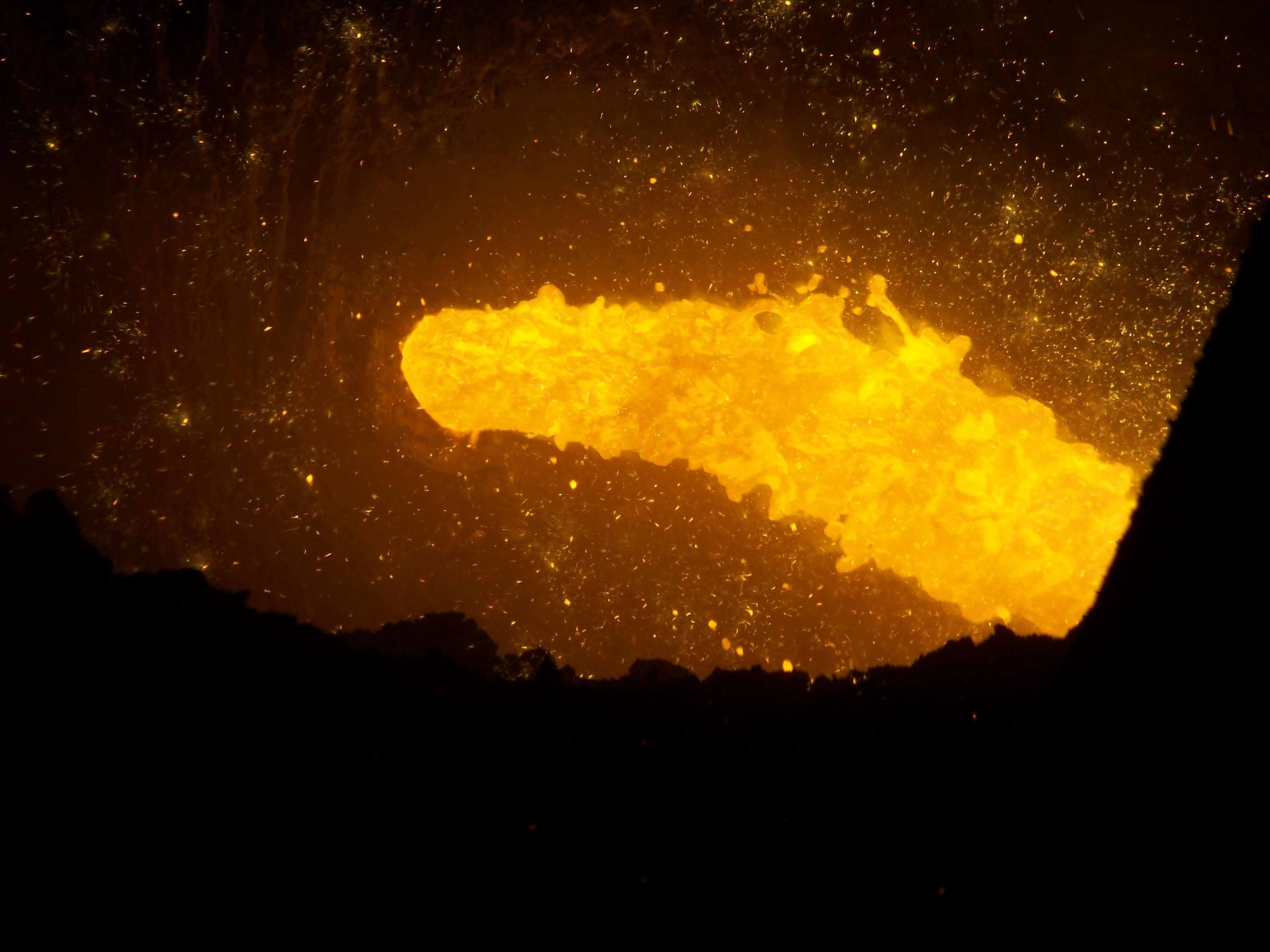 Iron and slag tapping from a blast furnace tap hole.